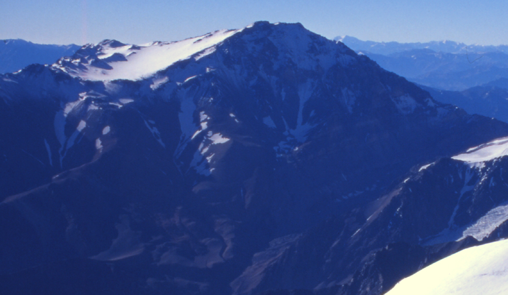 Cerro Ramada as seen from about 6500m on the neighbouring peak of Cerro Mercedario